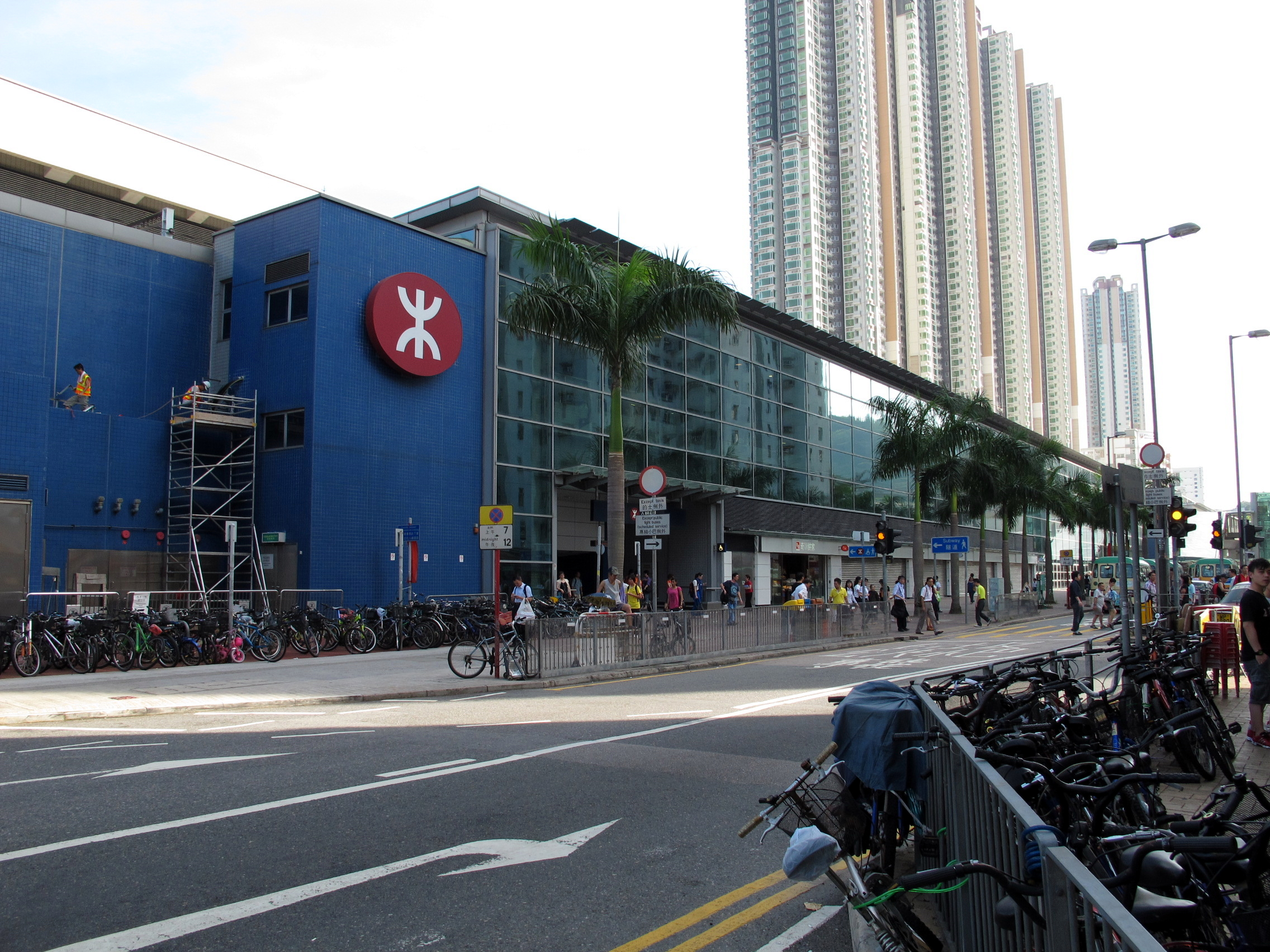 Tai Wai Station 大圍站外貌